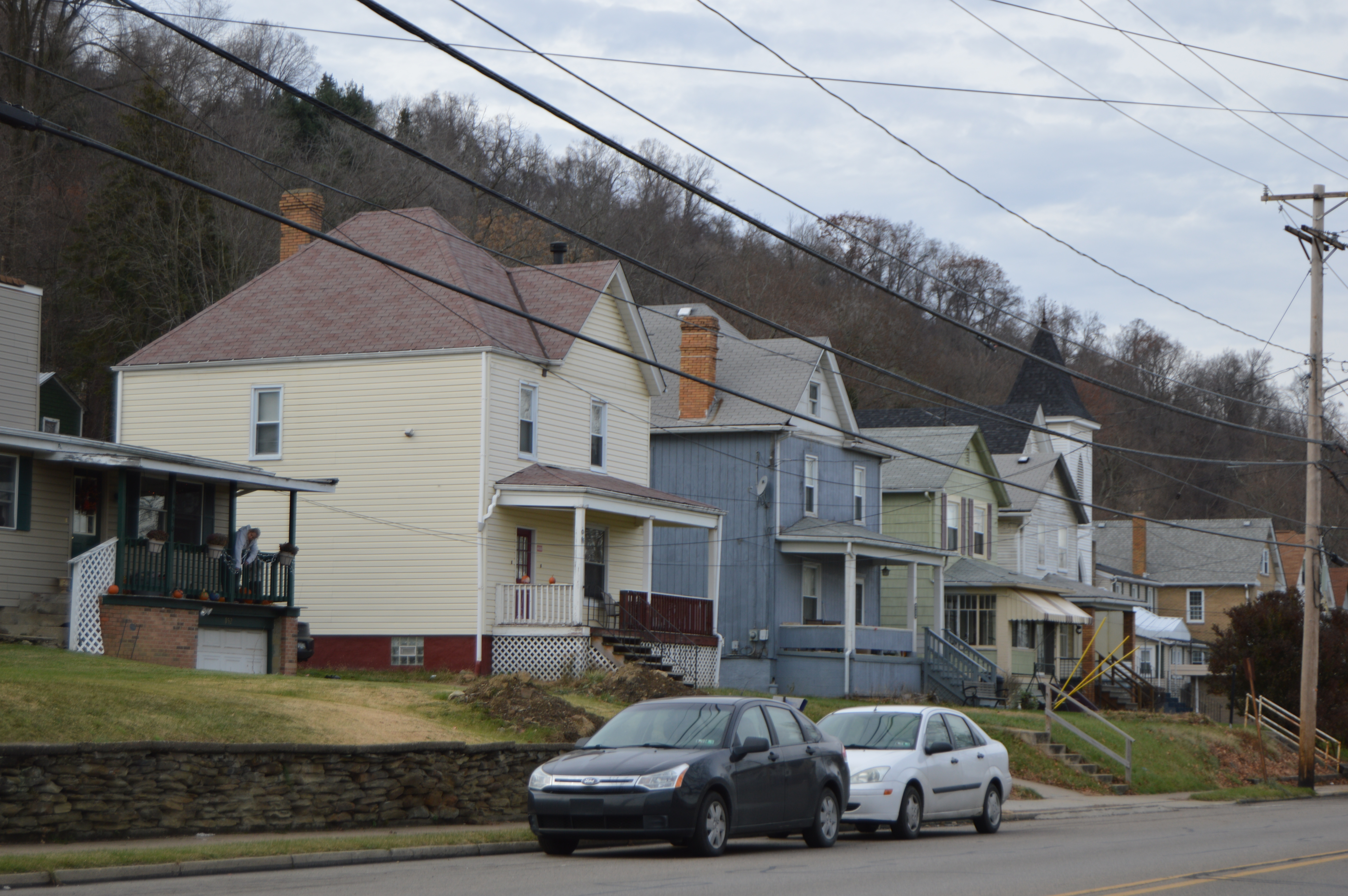 Houses on the western side of Jordan Street (Pennsylvania Route 51) near the Third Street intersection in South Heights, Pennsylvania, United States.